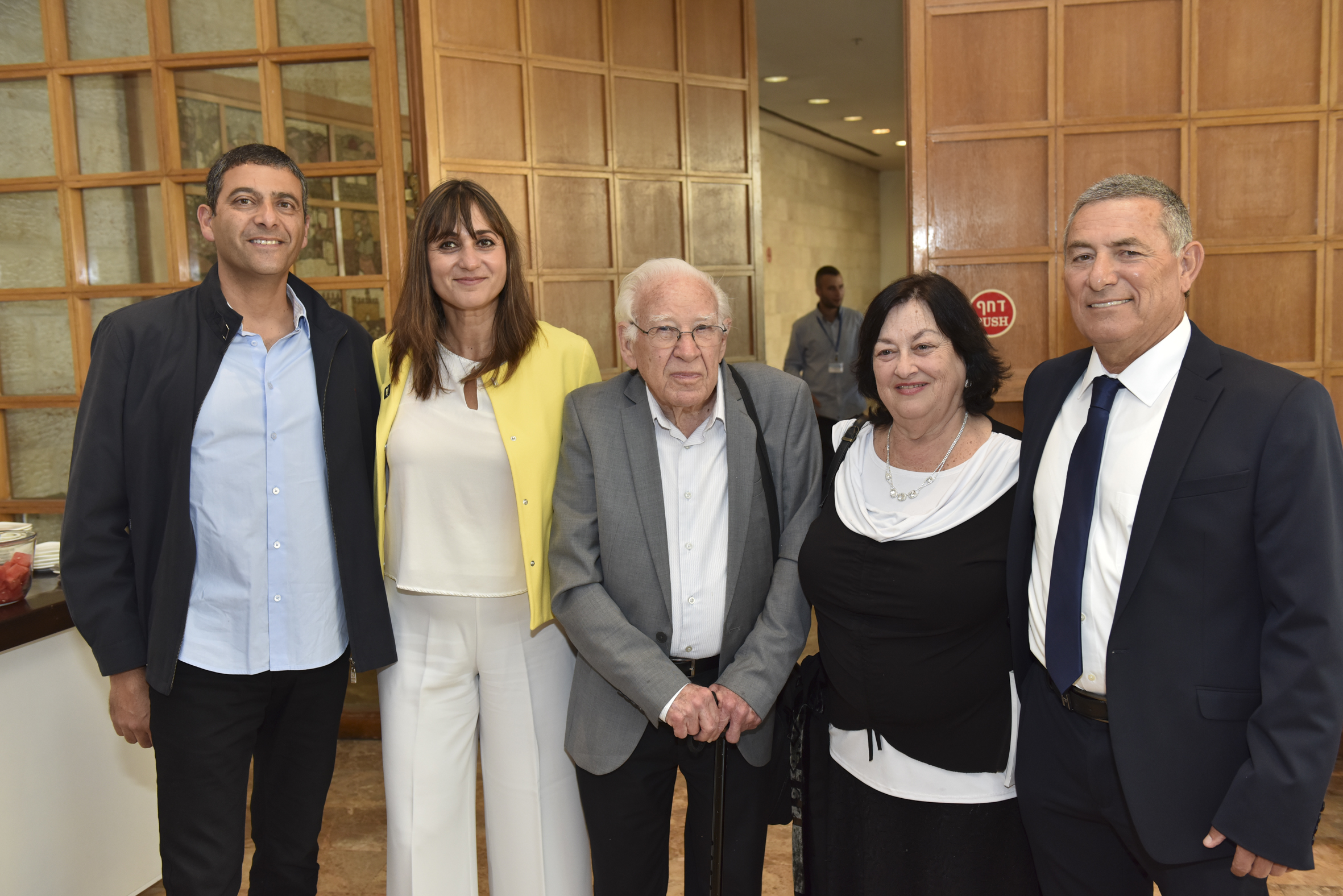 טקס פרס ישראל 2016